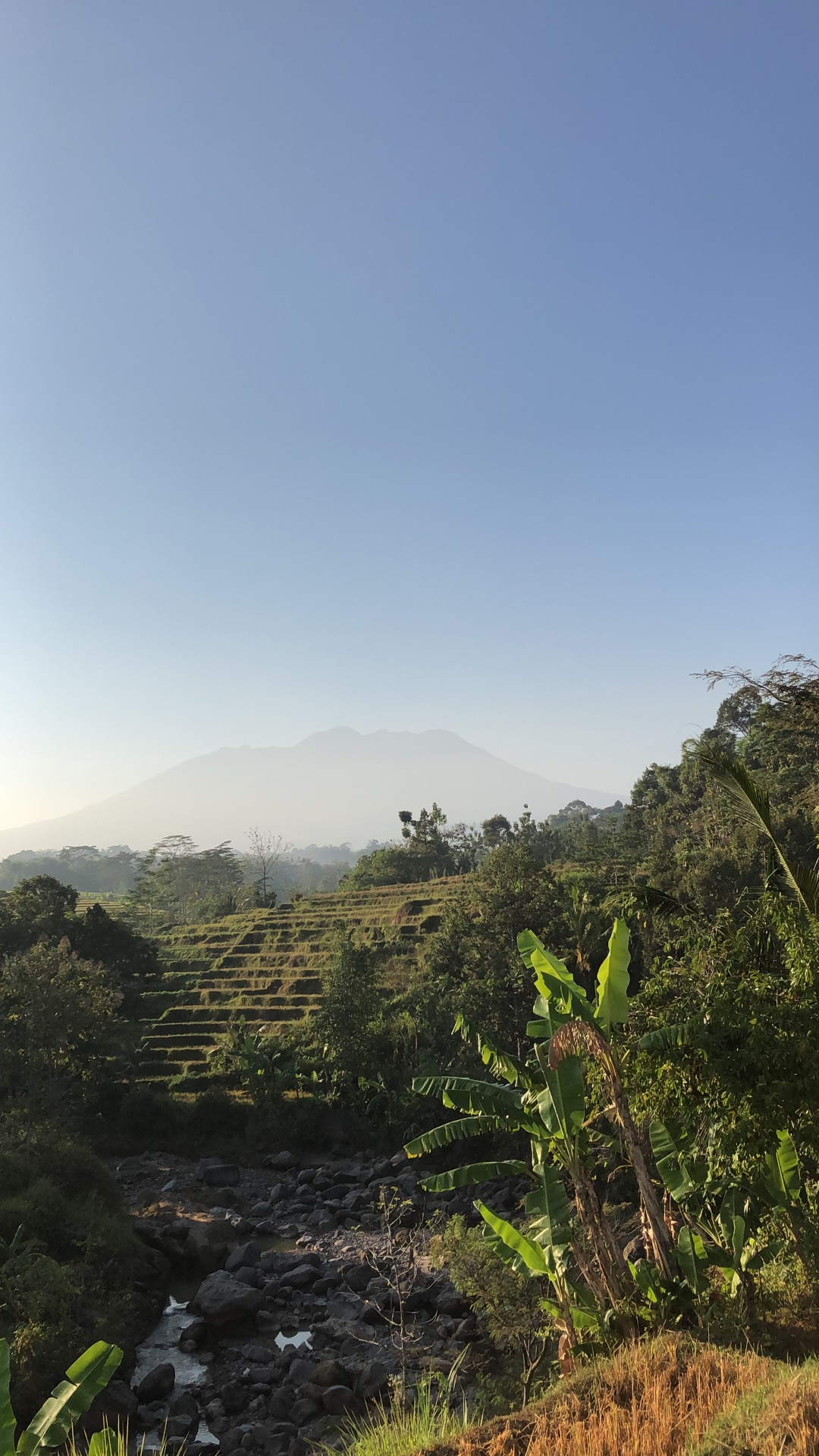 mount lawu is loacated in Karanganyar regency, Central Of Java